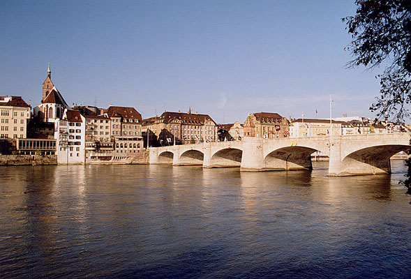 The Mittlere Brücke over the Rhine river in Basel